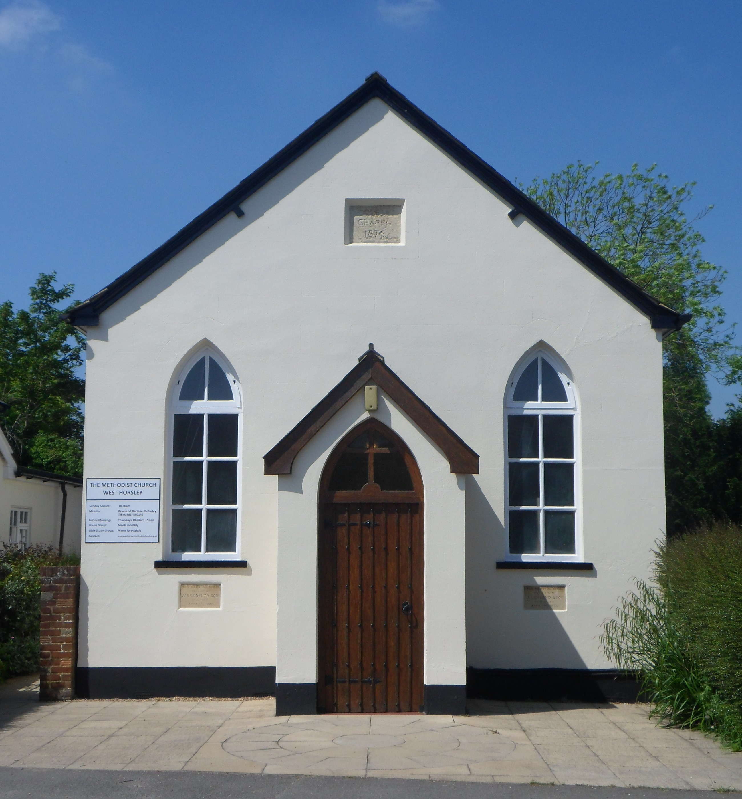 West Horsley Methodist Church, The Street, West Horsley, Borough of Guildford, Surrey, England.